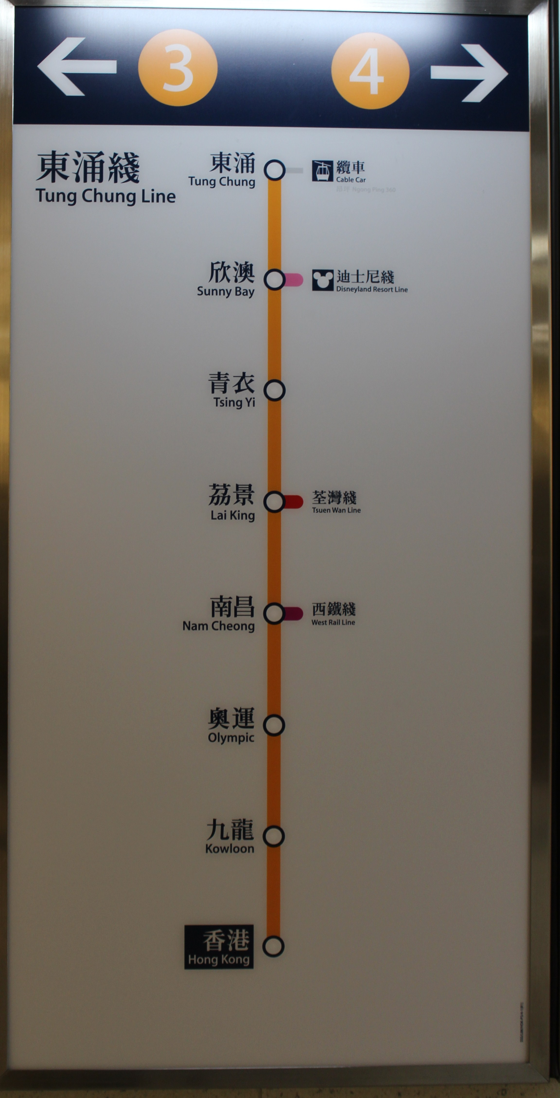 Central Station (MTR), Hong Kong